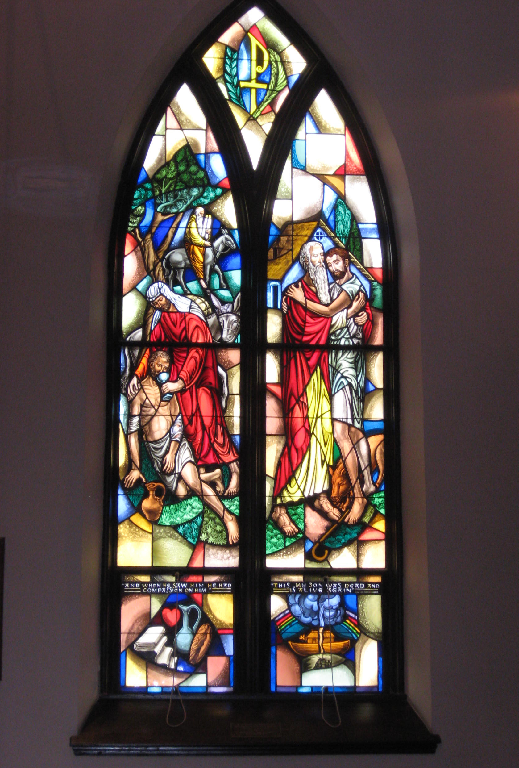 Christ Church, Newton, located in Newton, Sussex County, New Jersey. Interior of the sanctuary--two stained glass lancet windows, one depicting the story of the Good Samaritan (left) and the other the story of the Prodigal Son (right) from the Gospels.